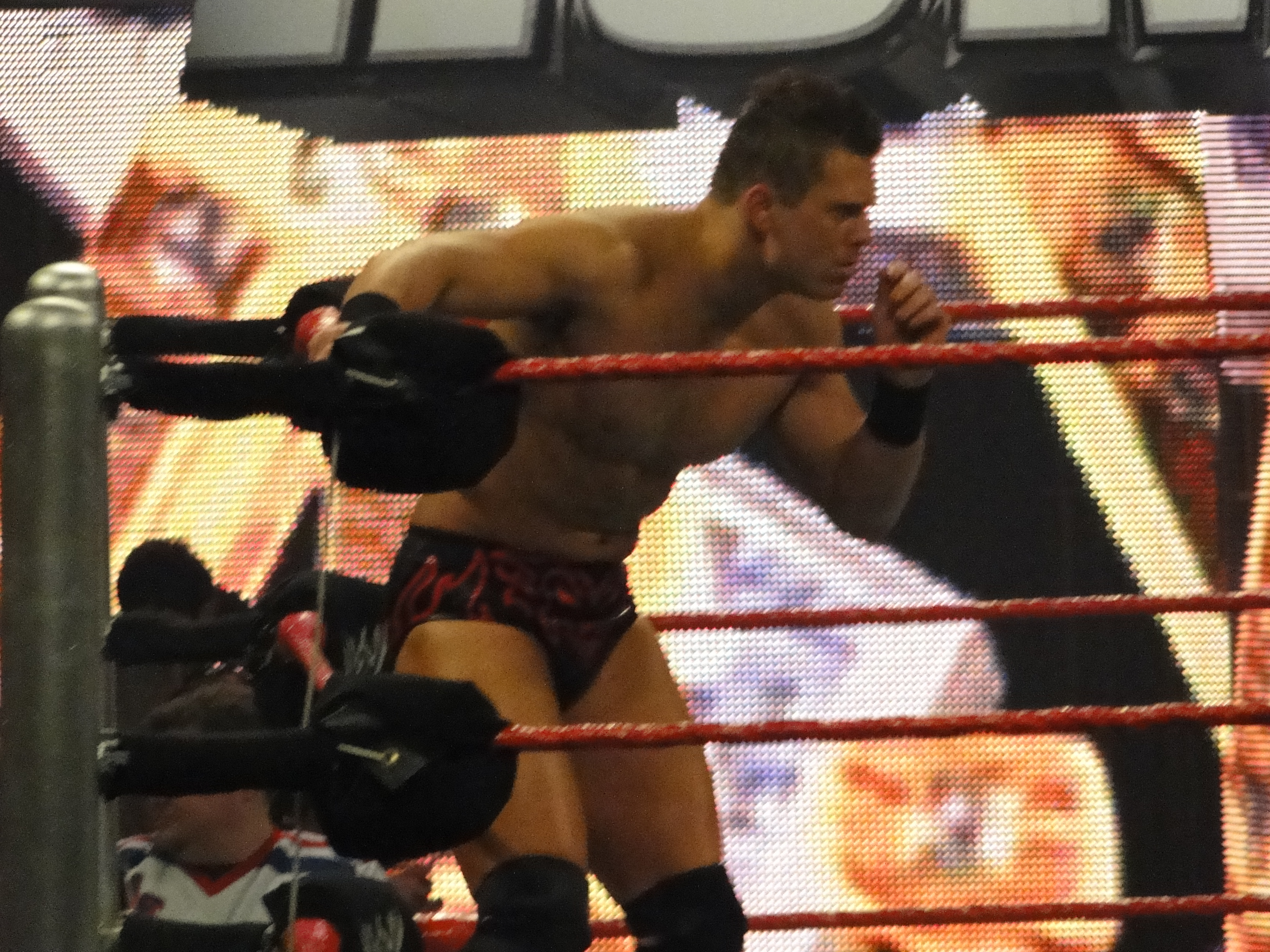 The Miz in Royal Rumble